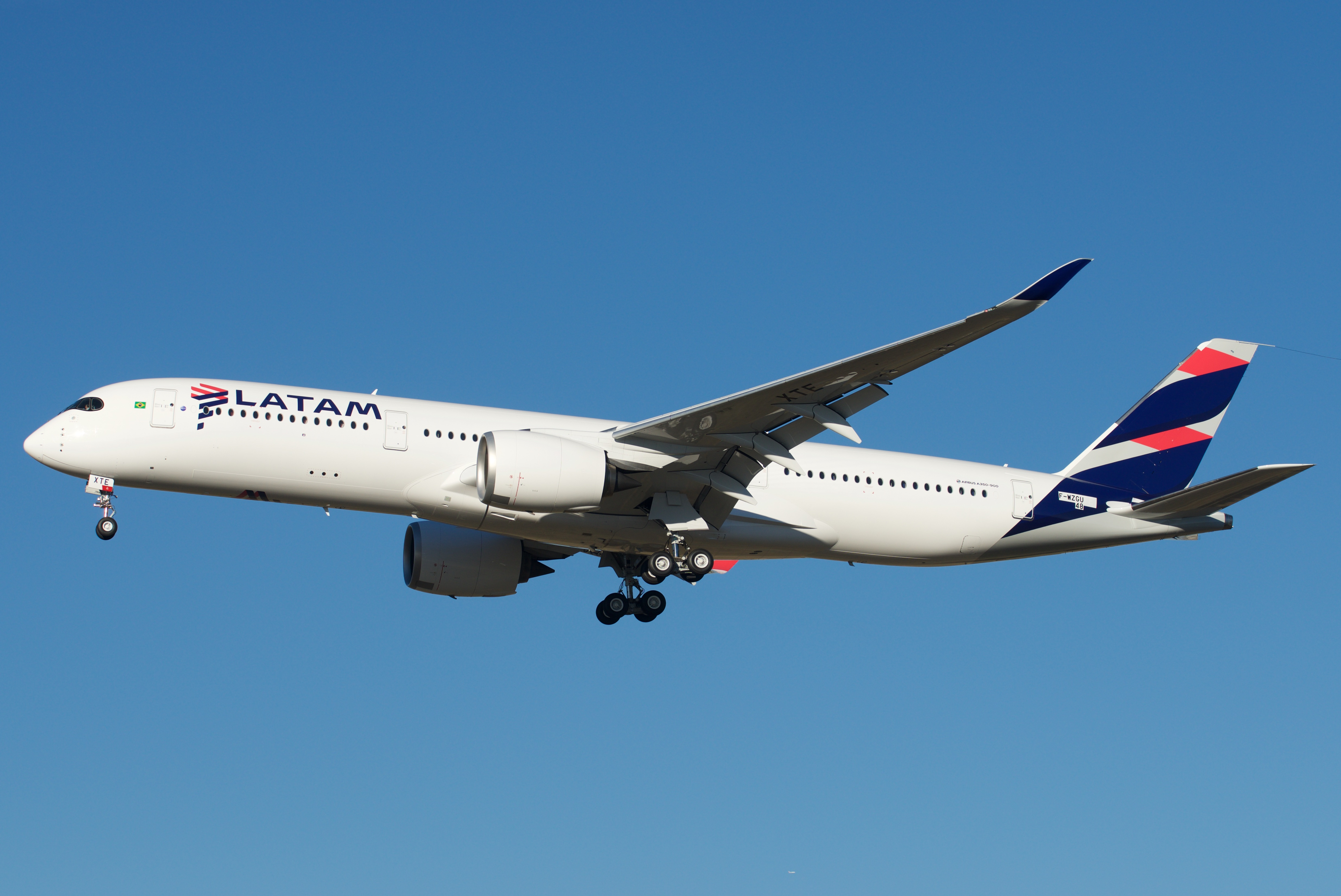 LATAM Brasil Airbus A350-900 back from a long day of testing, Toulouse.